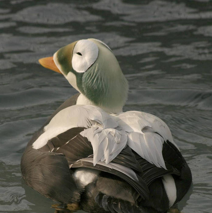 Threatened spectacled eider male (Somateria fischeri), Alaska SeaLife Center, Seward, Alaska